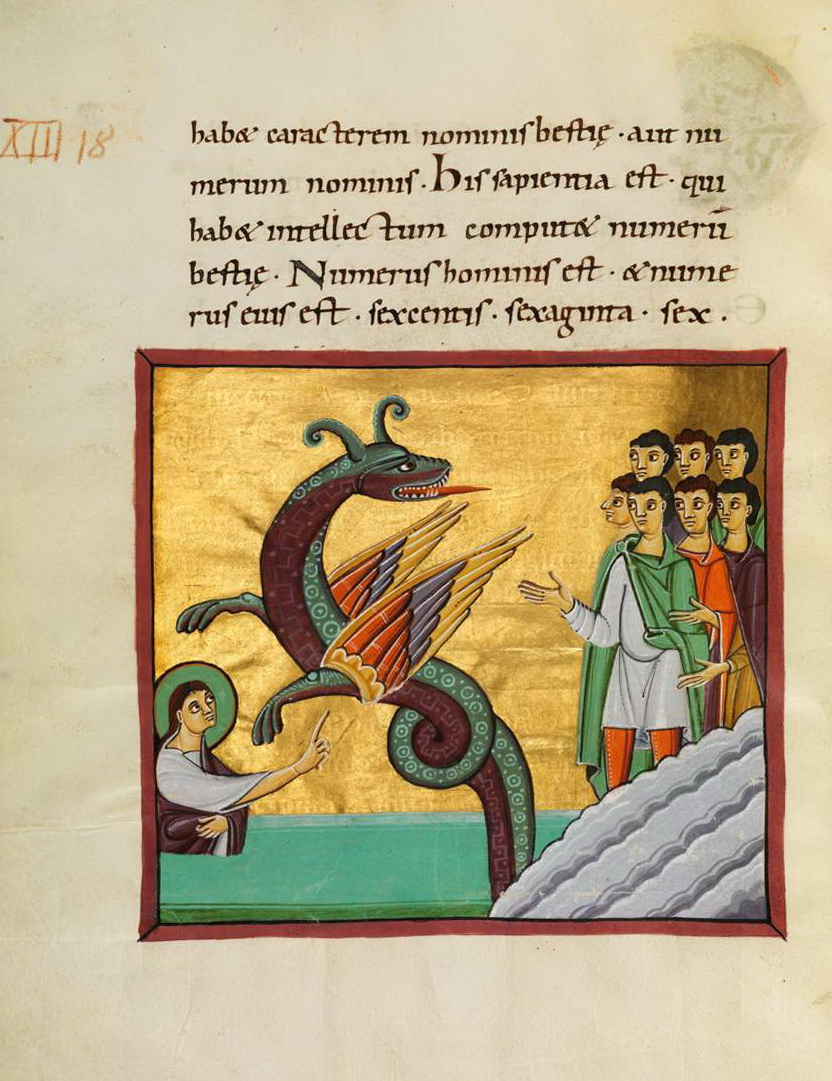 Bamberg Apocalypse: Book with 7 Seals - The Second Beast